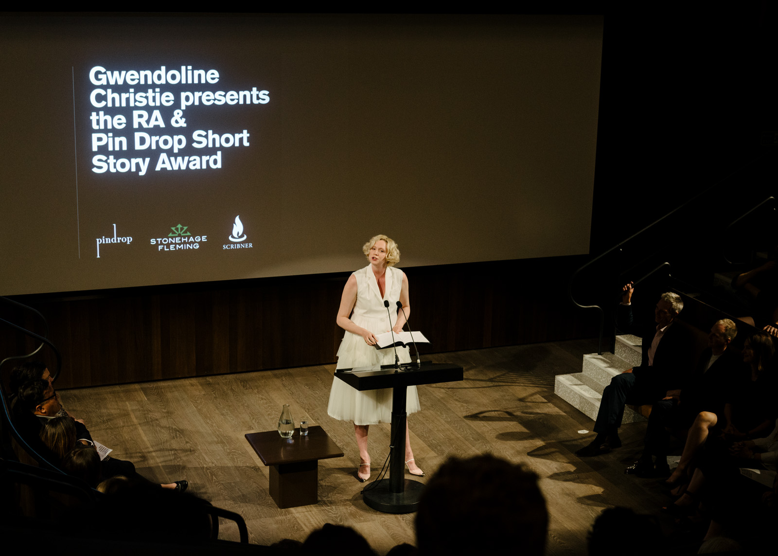 Actress Gwendoline Christie reading the winning story, 'Sunbed' by Sophie Ward', at the 2018 Pin Drop Short Story Award at The Royal Academy of Arts, London